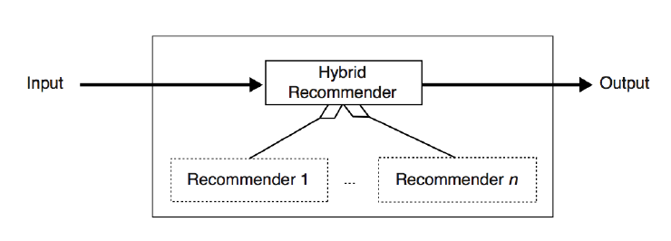 Sketch of a recommendation system